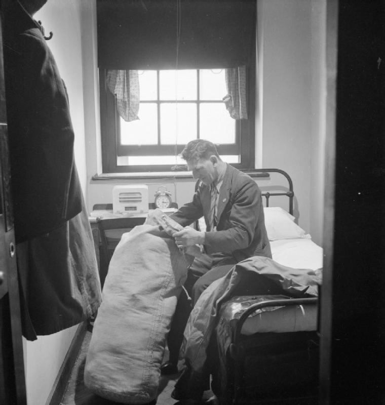 London Merchant Seamen's Home and Red Ensign Club, 1942 Merchant Seaman George Lappin checks through his belongings in his kit bag and he sits on the bed in his room at the London Merchant Seaman's Home and Red Ensign Club. The rooms are small and cell-like, with only enough room for a bed, bedside cabinet and a few wall hooks, but a large window lets lots of light into the room.